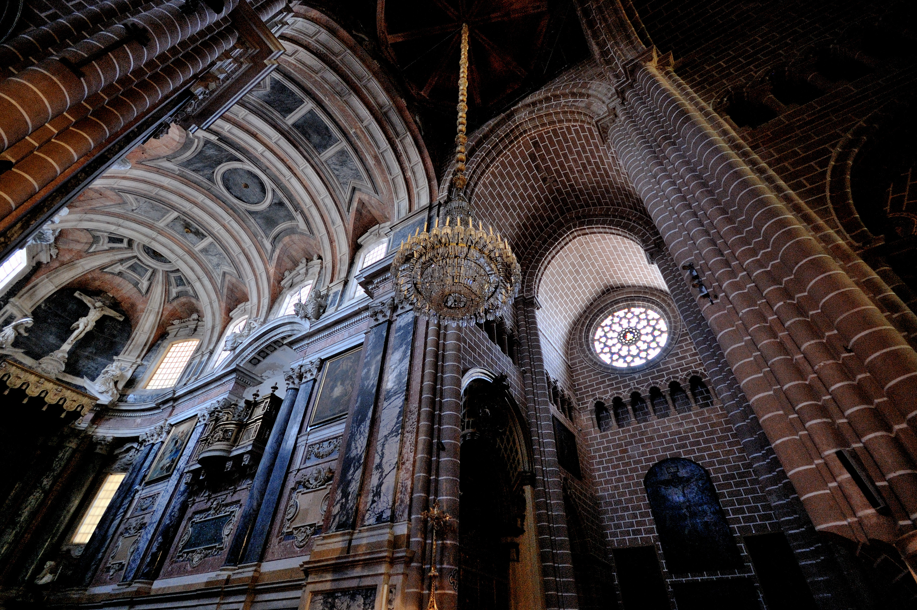 Transept area of the Cathedral of Évora